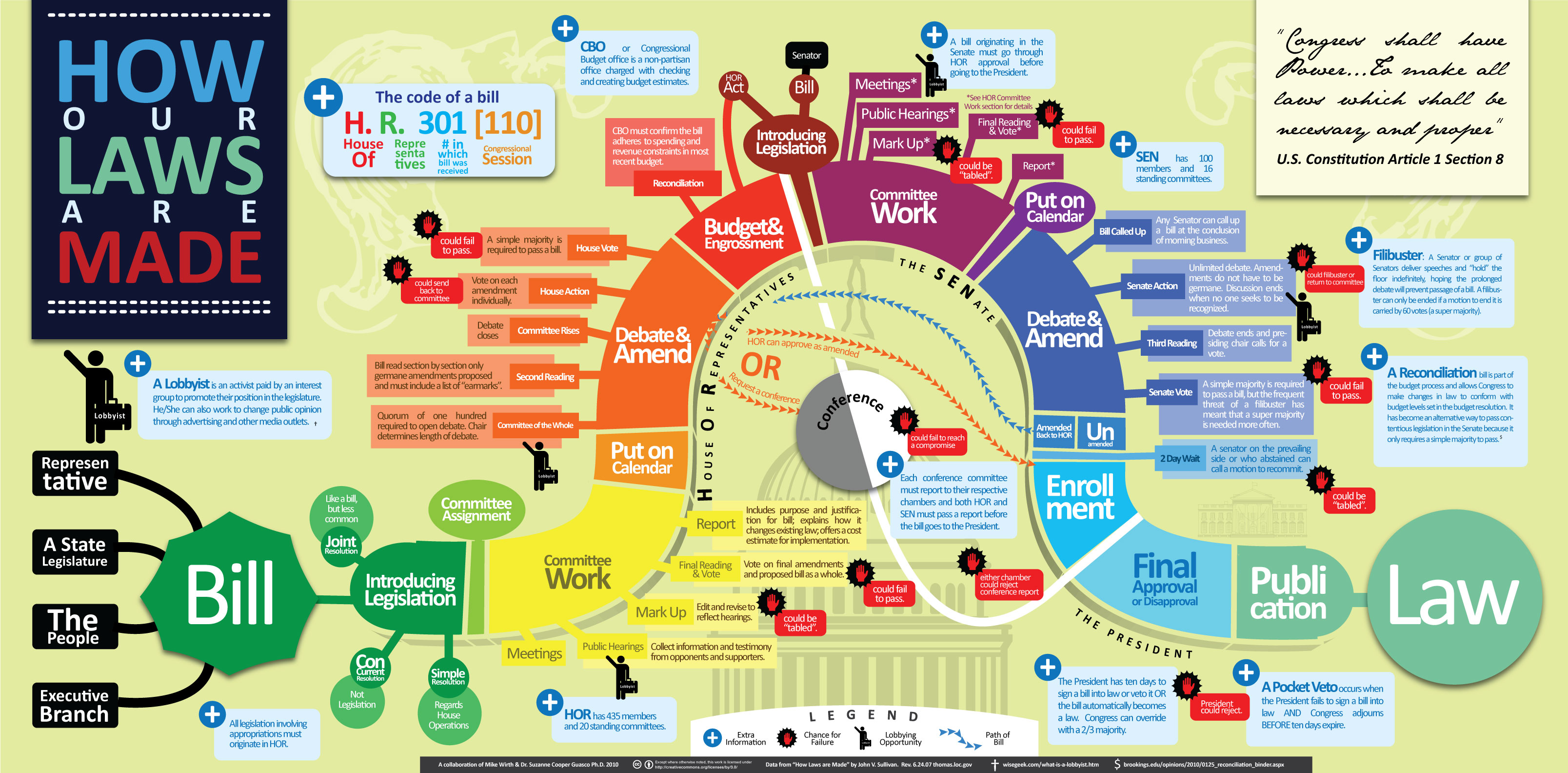 This “How Our Laws Are Made” infographic by Mike Wirth and Dr. Suzanne Cooper-Guasco won first prize in the Sunlight Foundation “Design for America Competition” 2010. Accuracy was judged based on the details in this document: . Sunlight Foundation “Design for America Competition” 2010: This submission was licensed as Creative Commons By-Attribution 3.0.